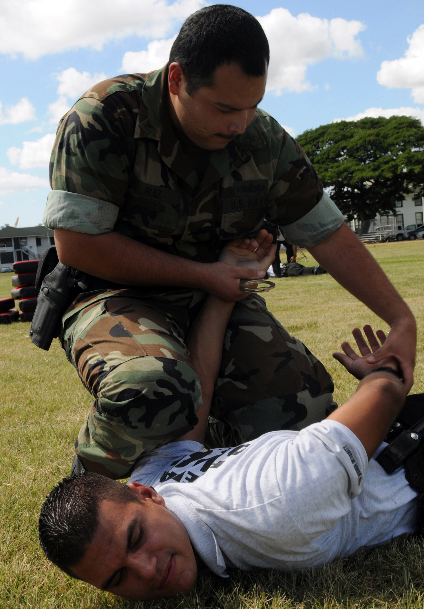 U.S. Navy Boatswain's Mate 2nd Class Antonio Ruiz, top, and Emmanuel Dejesus, recruits at Naval Regional Police Training Center Hawaii, practice handcuff techniques during training in Pearl Harbor, Hawaii, Feb. 13, 2008. Ruiz is the only active duty Sailor in a class of 39 attending the academy, which trains civilians to be federal police officers for the Hawaiian region.